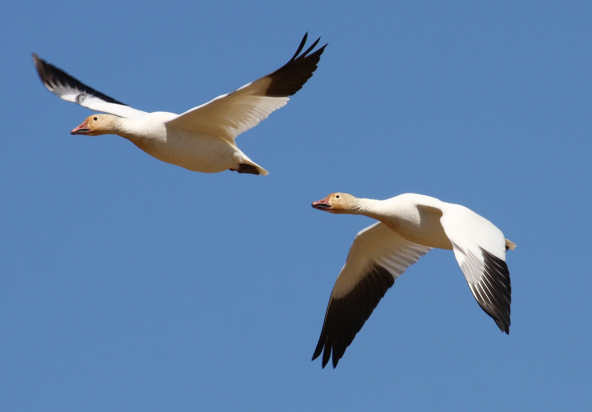 Snow geese (Anser caerulescens), Cap Tourmente National Wildlife Area, Quebec, Canada